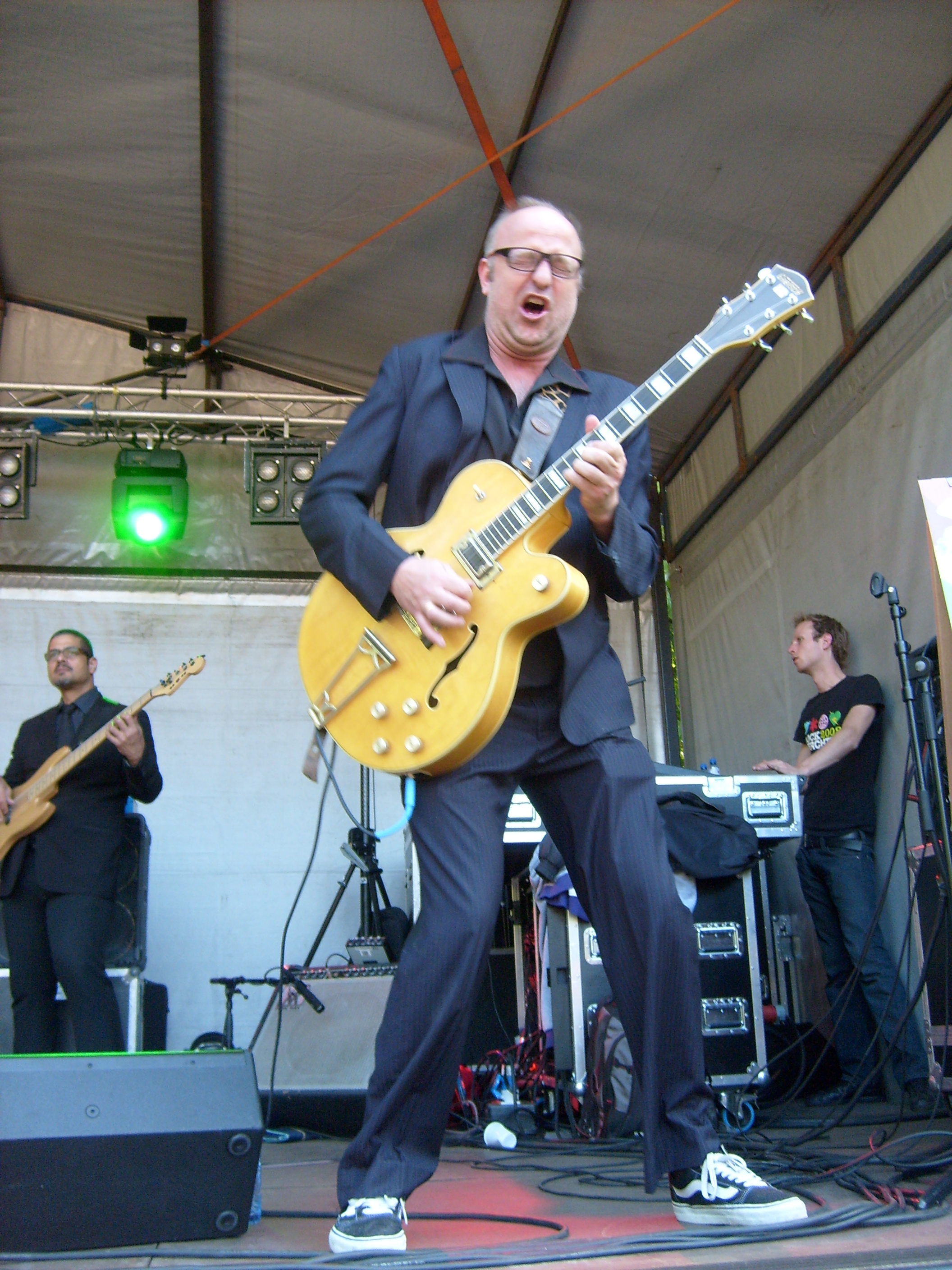 Anton Goudsmit - New Cool Collective - Utrecht, Wilhelminapark , 2009-05-31